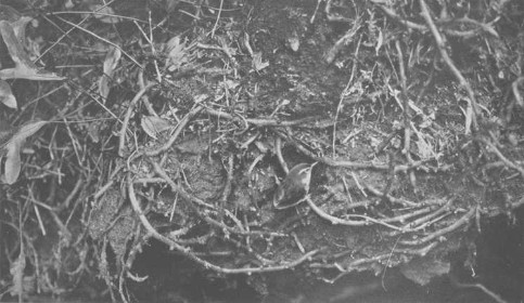 Photo (taken in 1911) of the South Island Bush Wren (Xenicus longipes longipes). From Bird Life on Island and Shore (1925) by Herbert Guthrie-Smith (1862–1940).